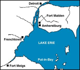 Part of the River Raisin National Battlefield Park